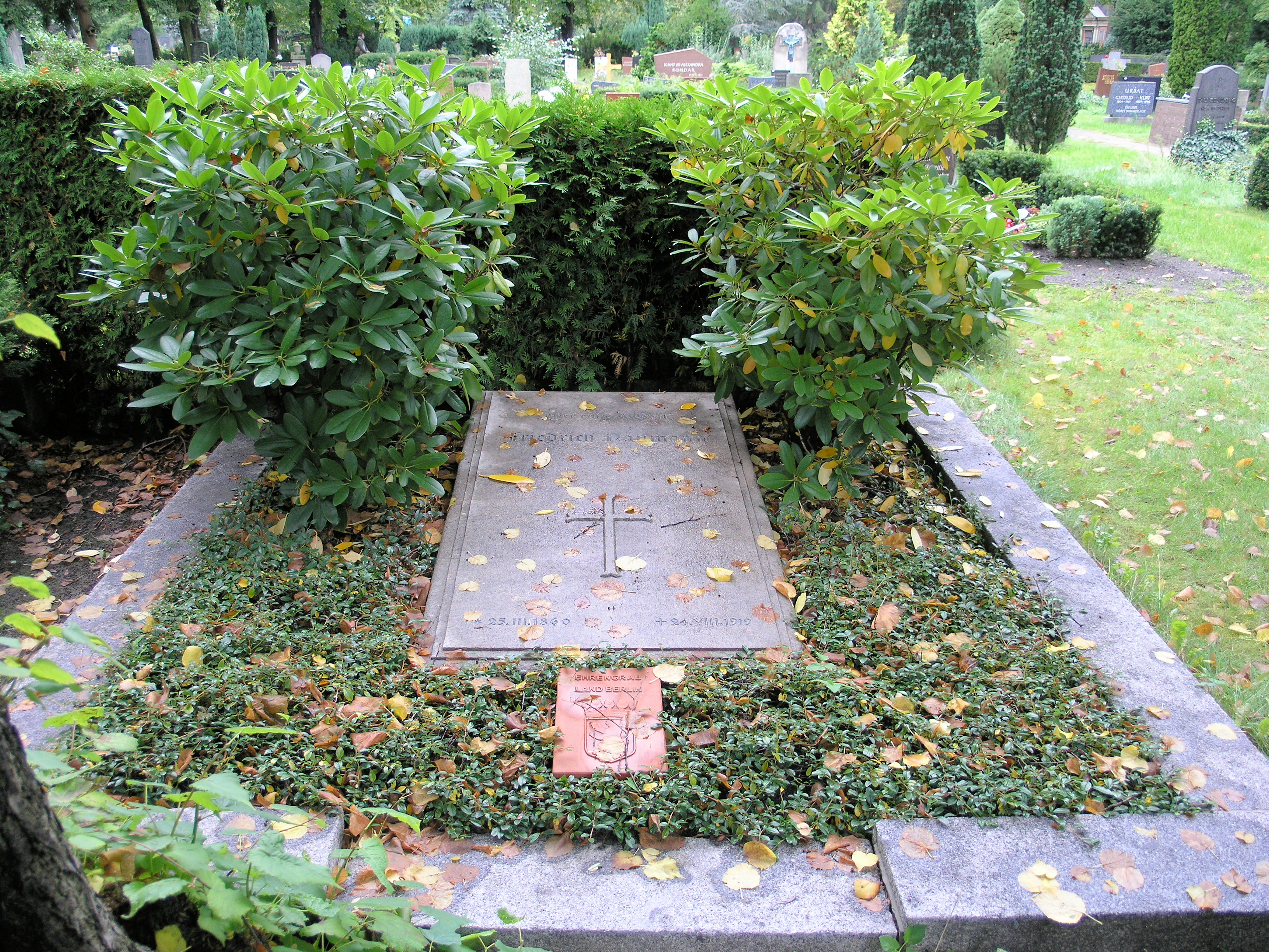 "Ehrengrab" (grave of honor), Friedrich Naumann, Kolonnenstraße 24-25, Berlin-Schöneberg, Germany Koordinate:52°29′01.2″N 13°21′56.83″E / 52.483667°N 13.3657861°E